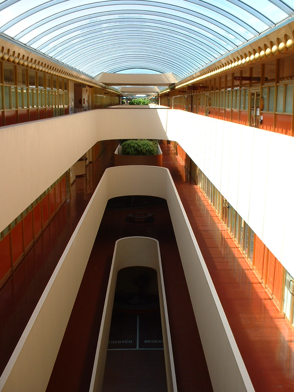 The Marin County Civic Center